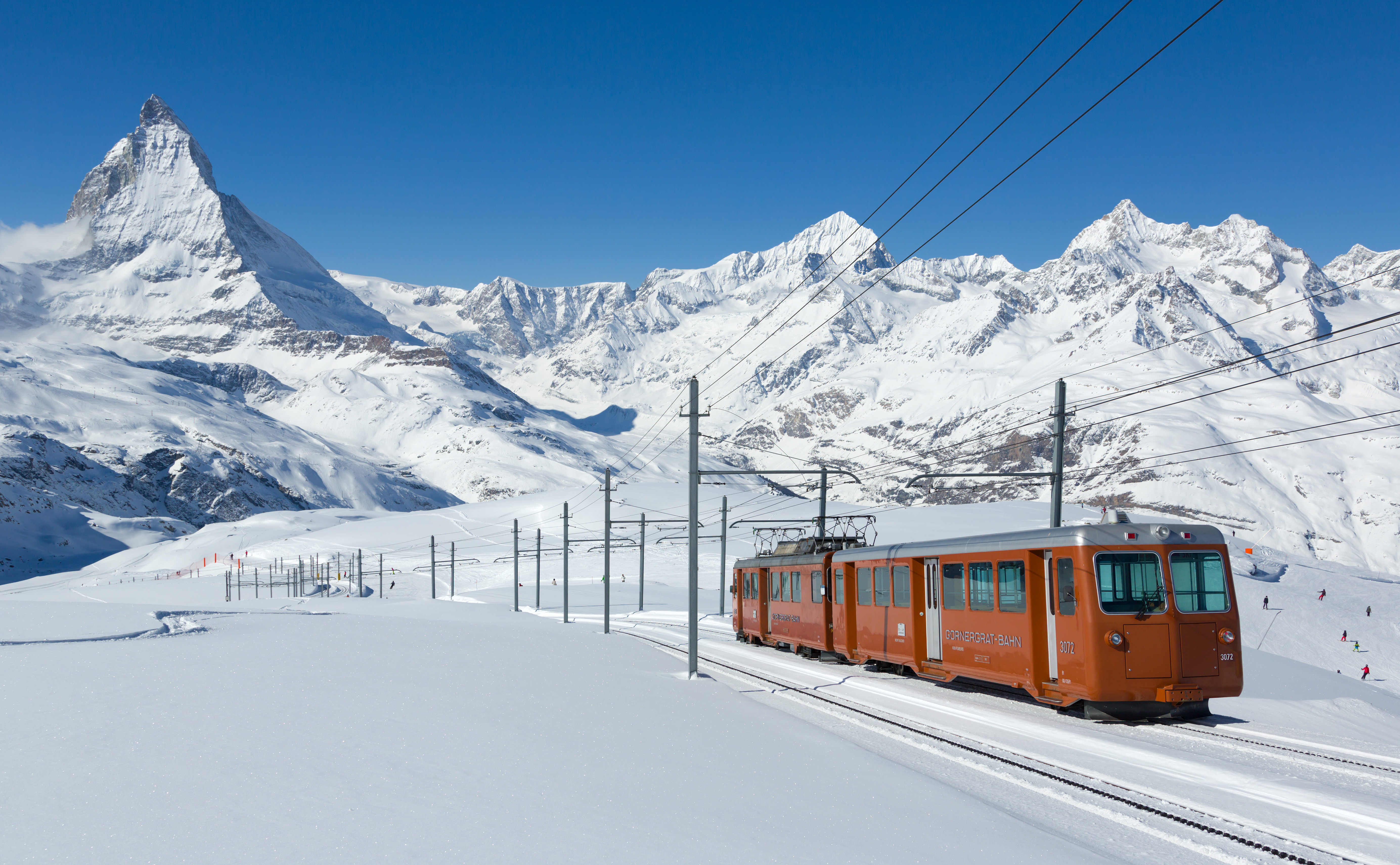 Gornergratbahn push-pull train consisting of Bhe 4/4 and control car between Gornergrat and Rotenboden, Switzerland.